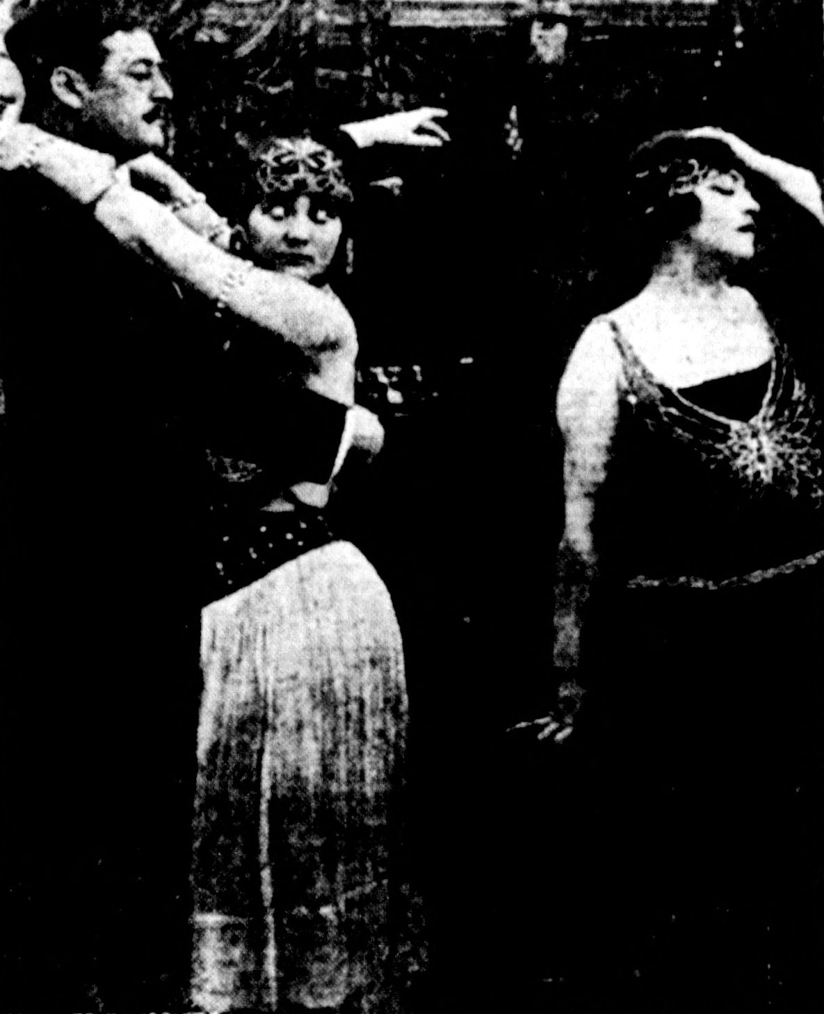 Bella Donna is a 1915 American silent drama film produced by Famous Players-Lasky and the Charles Frohman Company, starring Pauline Frederick. This is a scene published in a newspaper. Original caption: "Bella Donna Spurned, a scene from Bella Donna, a Famous Players picture, the feature at the Alhambra for the balance of the week."